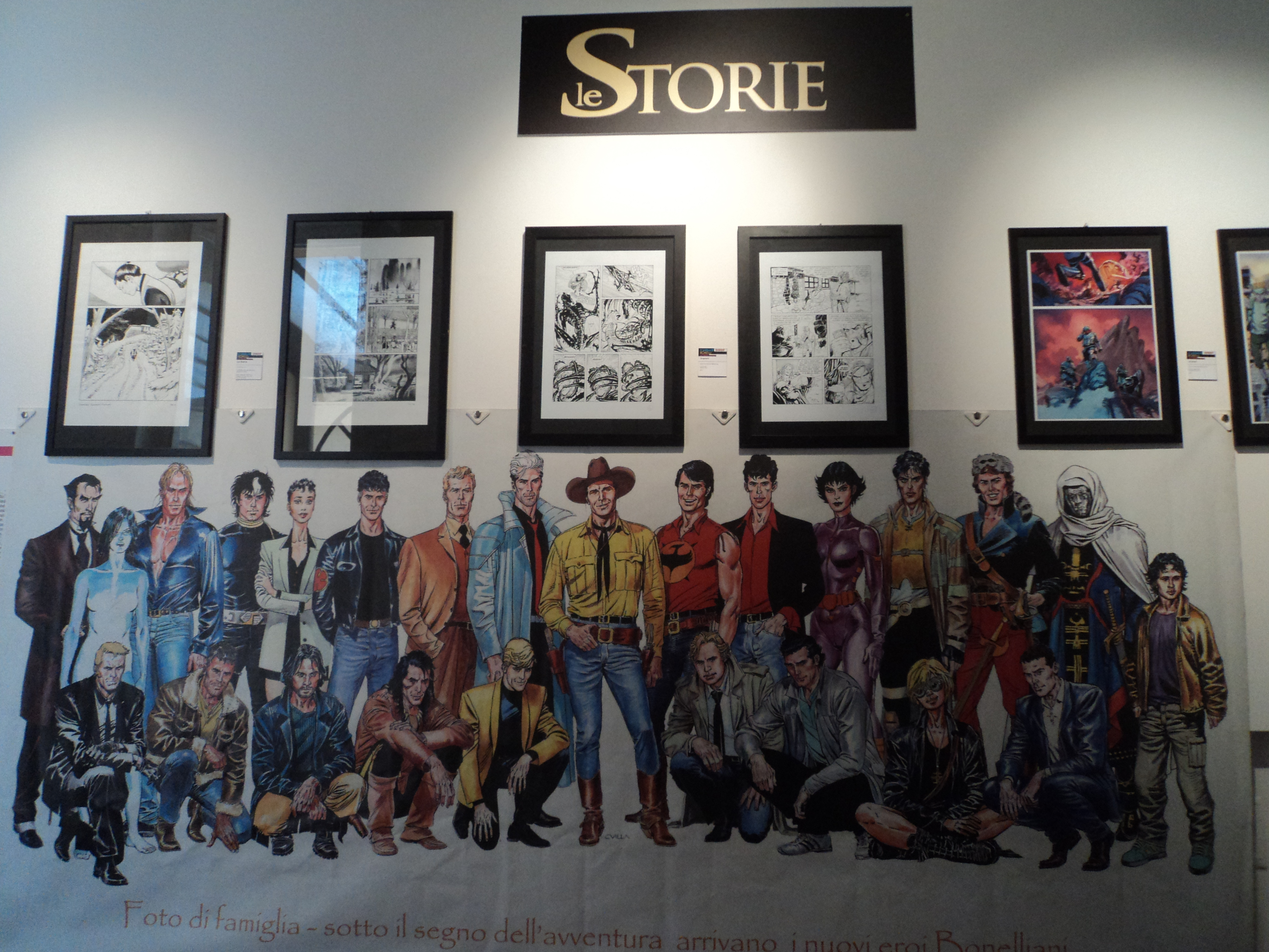 Show L'Audace Bonelli in Rome.